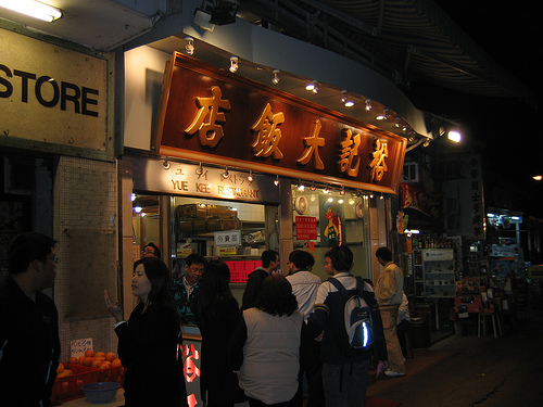 Entrance and front window of the Yue Kee Roasted Goose Restaurant at 9 Sham Hong Road, Sham Tseng, New Territories, Hong Kong [1]